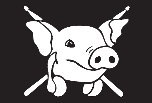 logo for a festival